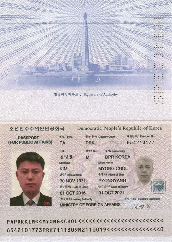 Personal Info Page of the DPRK E-Passport for Public Affairs.